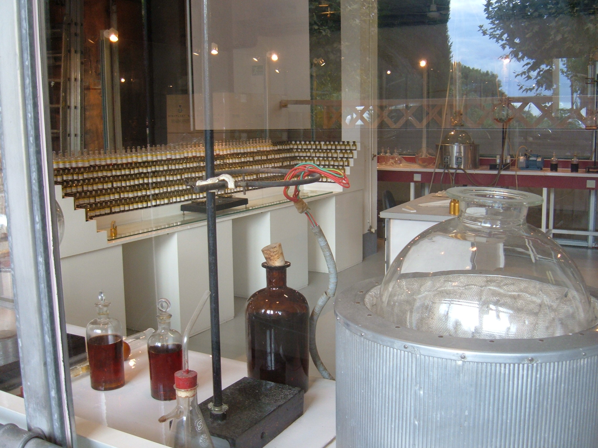 The perfume lab at the Fragonard perfume factory in Èze, France.